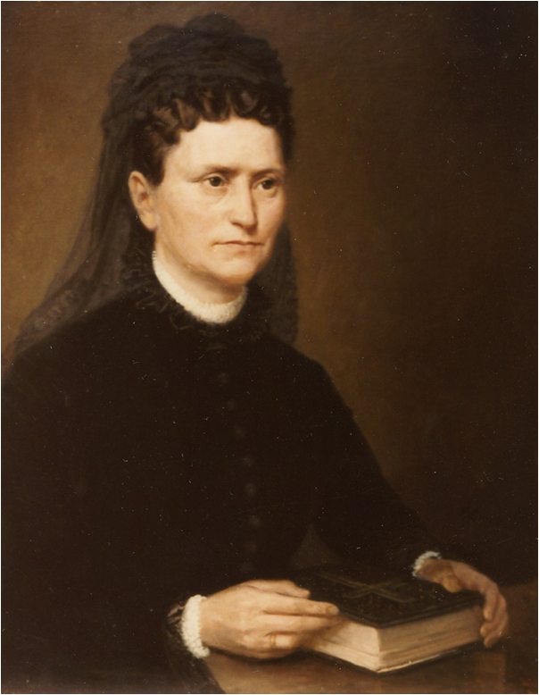 Portrait of Fredrikke Nielsen. Private owner: N S-H. The Theater archive, University of Bergen.